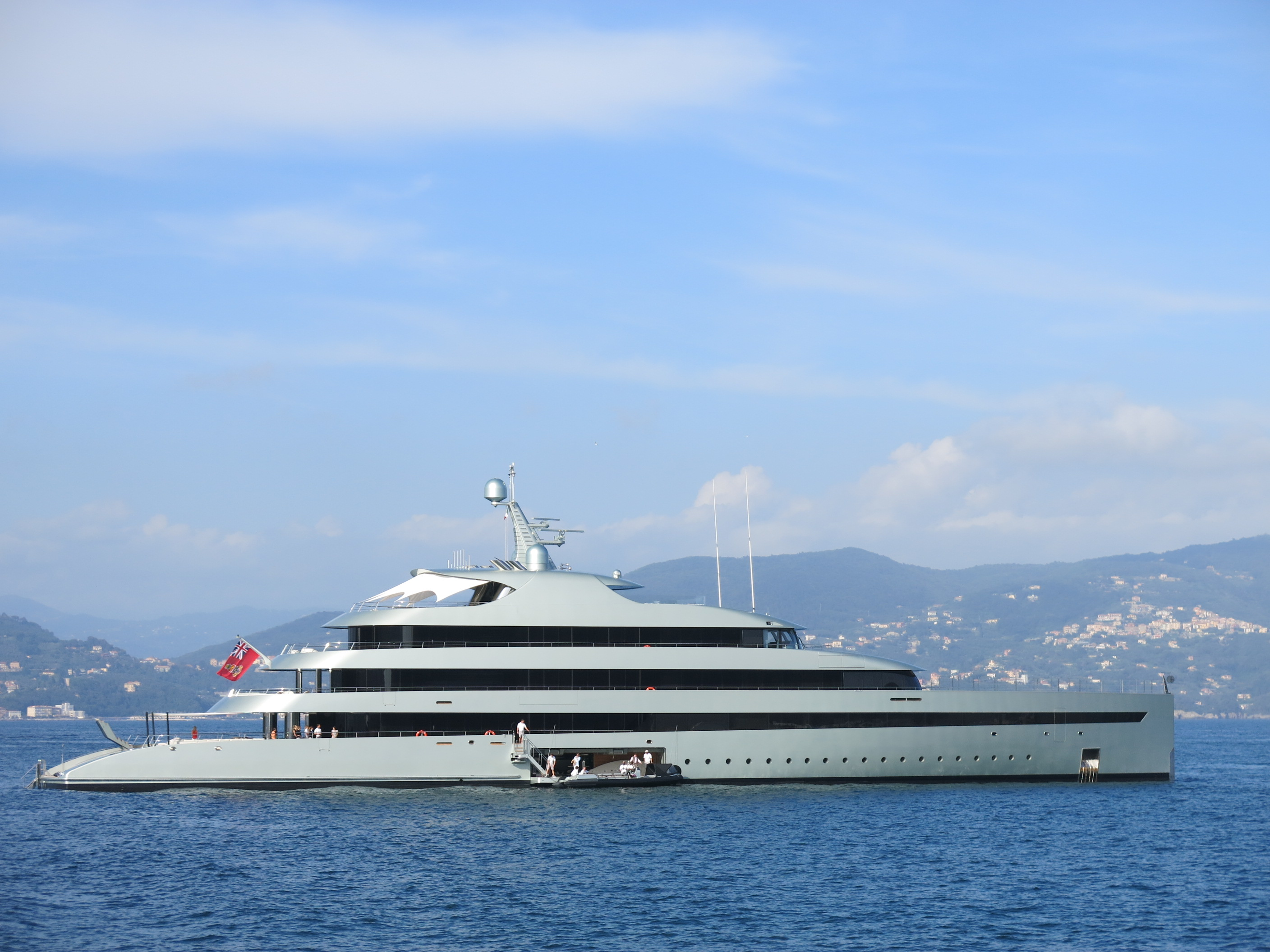 Large yacht Savannah in the gulf of la Spezia (Liguria, Italy).